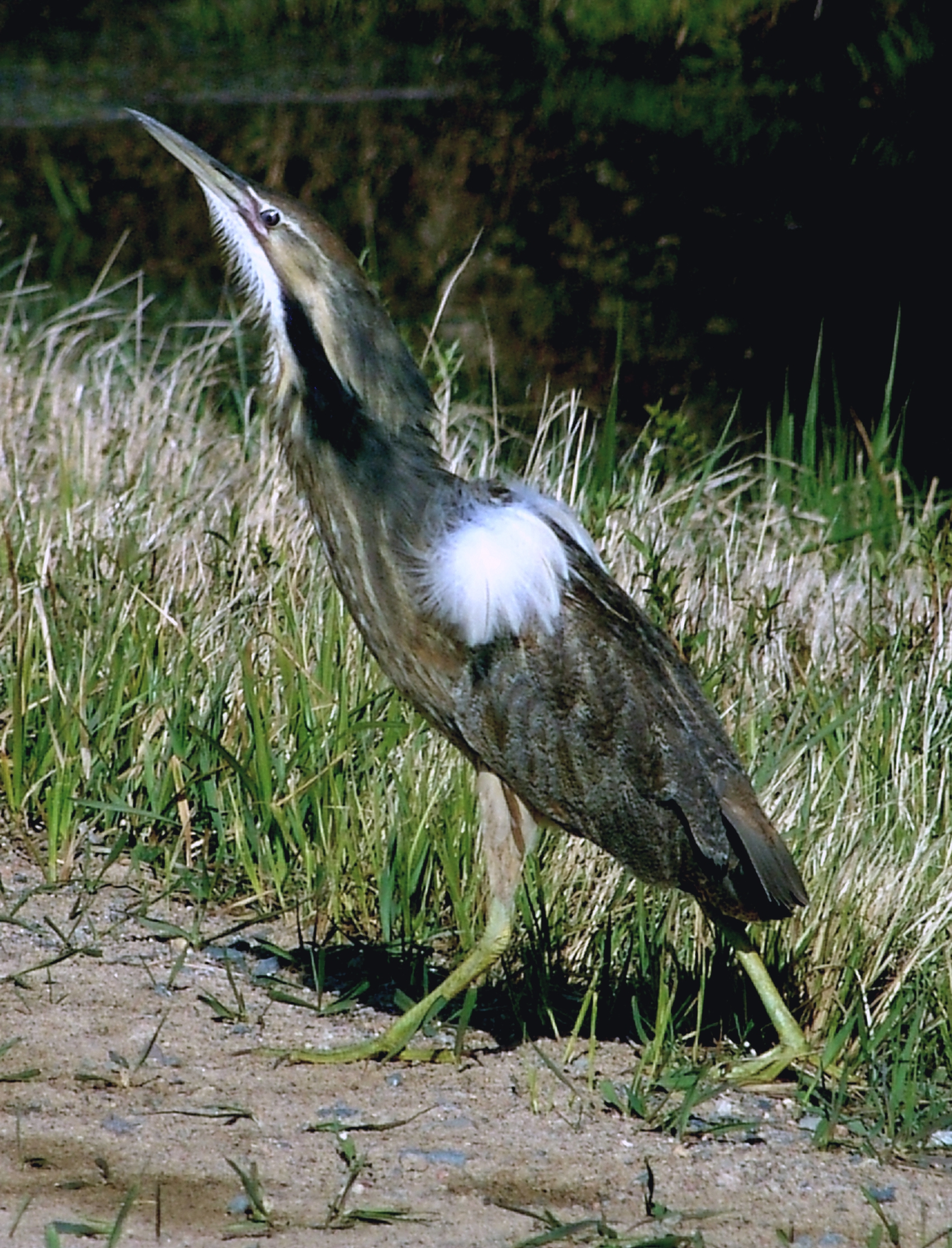 These birds are fairly secretive and rely on camouflage feathering to blend into the marsh to conceal them from predators. They make a loud "glugging" noise during the breeding season that sounds like a boot being pulled out of mud. This male was standing right along the edge of a road, calling to his prospective mate on the other side. The birds lose their decorative wing patches after mating; this is the first time I've ever seen a bittern in this plumage.